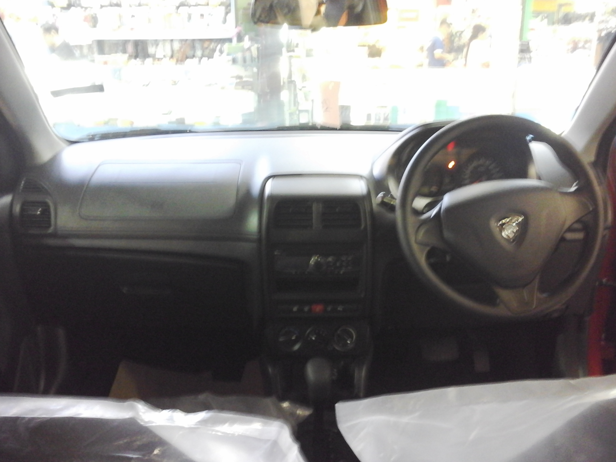 2019 Proton Saga 1.3 VVT Standard CVT variant dashboard interior view. Photographed in Emart Tudan, Miri, Malaysia.